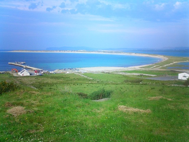 An Ché Mhachaire Uí Robhartaigh (Magheraroarty pier)